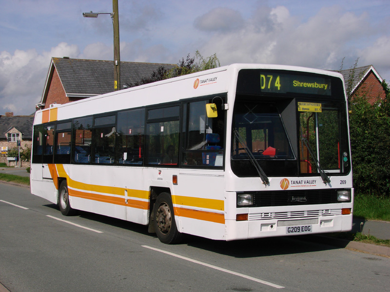 Current vehicle operated by Tanat Valley Coaches is this Leyland Lynx, fleetnumber 269 - G209 EOG. This was new to West Midlands Travel (WMT) (photographer Chris Clegg).